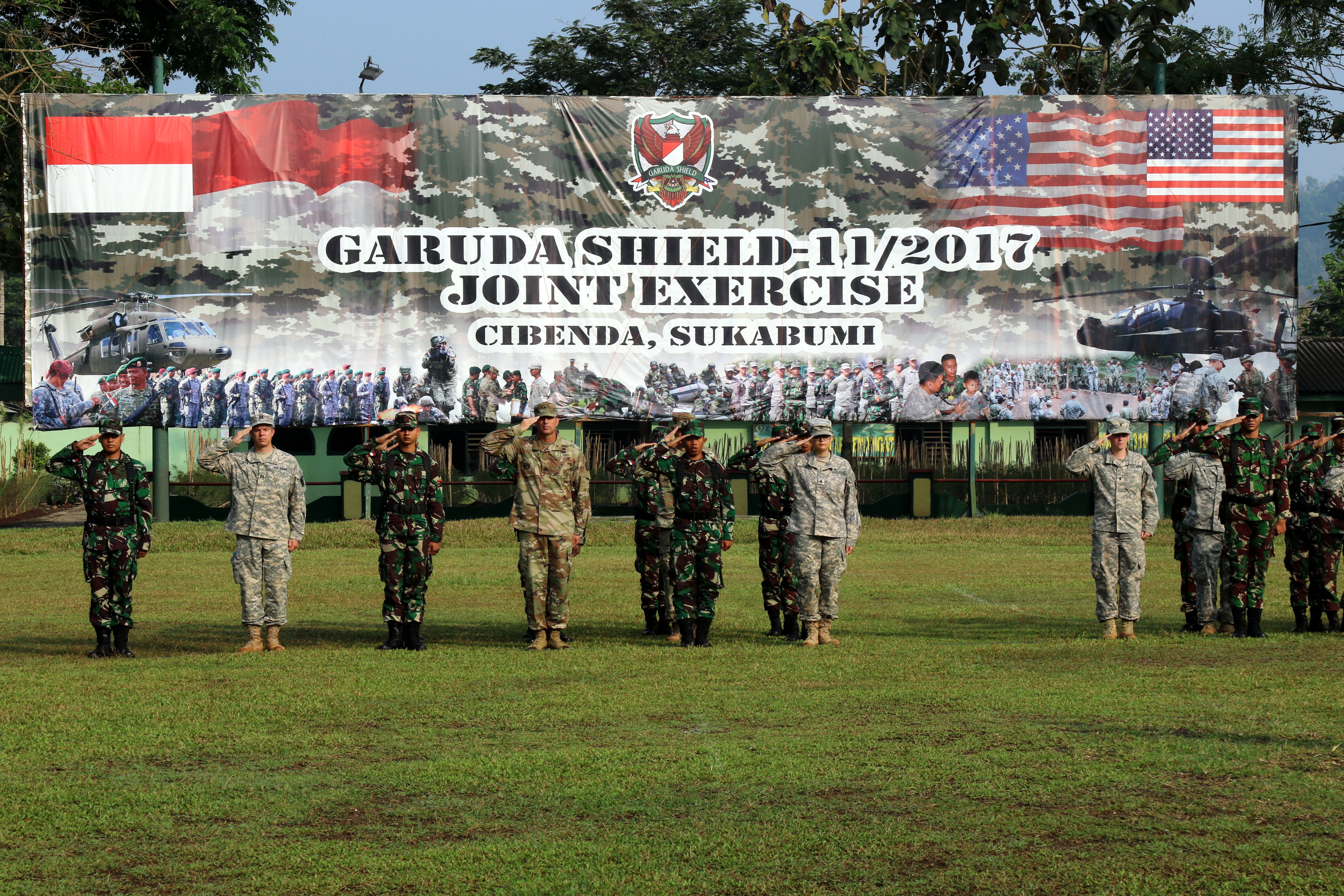 Soldiers with the Tentara Nasional Indonesia Army (TNI-AD) and U.S. Army stood side-by-side on a parade field during the closing ceremony that officially marked the end of the Garuda Shield 2017 exercise, September 29, 2017